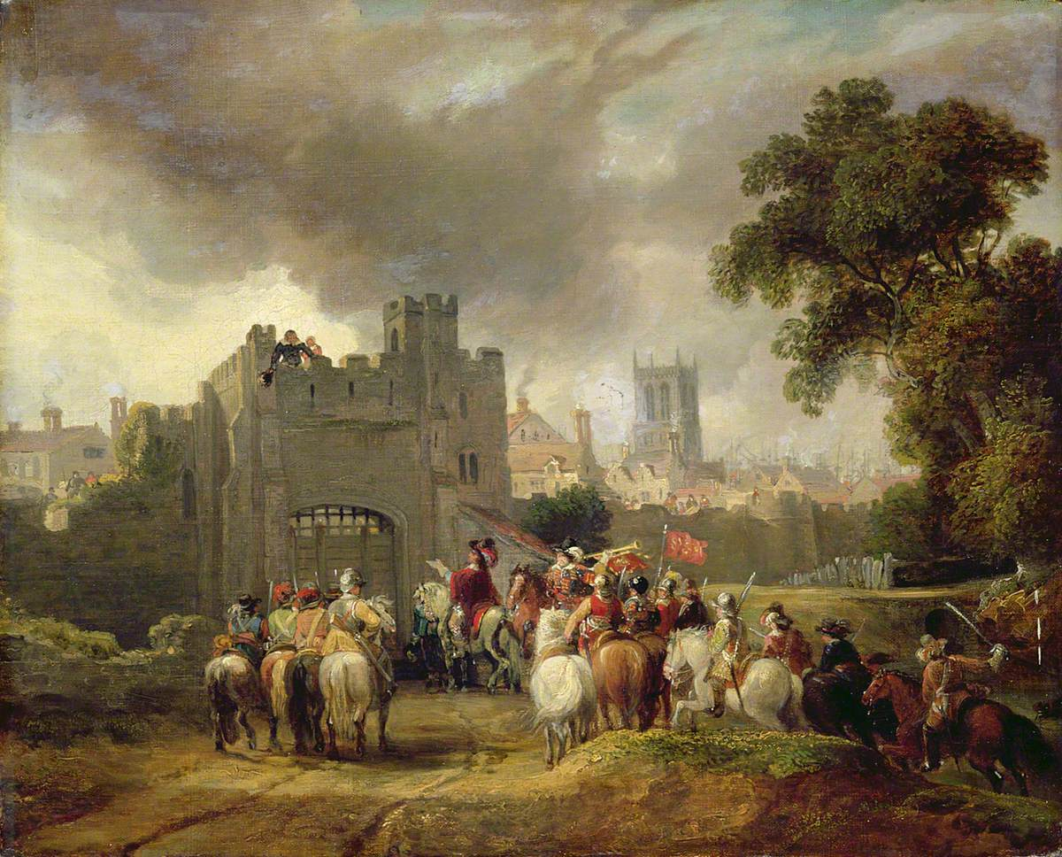 Charles I demanding entrance to the Hull prior to the English Civil Wars.